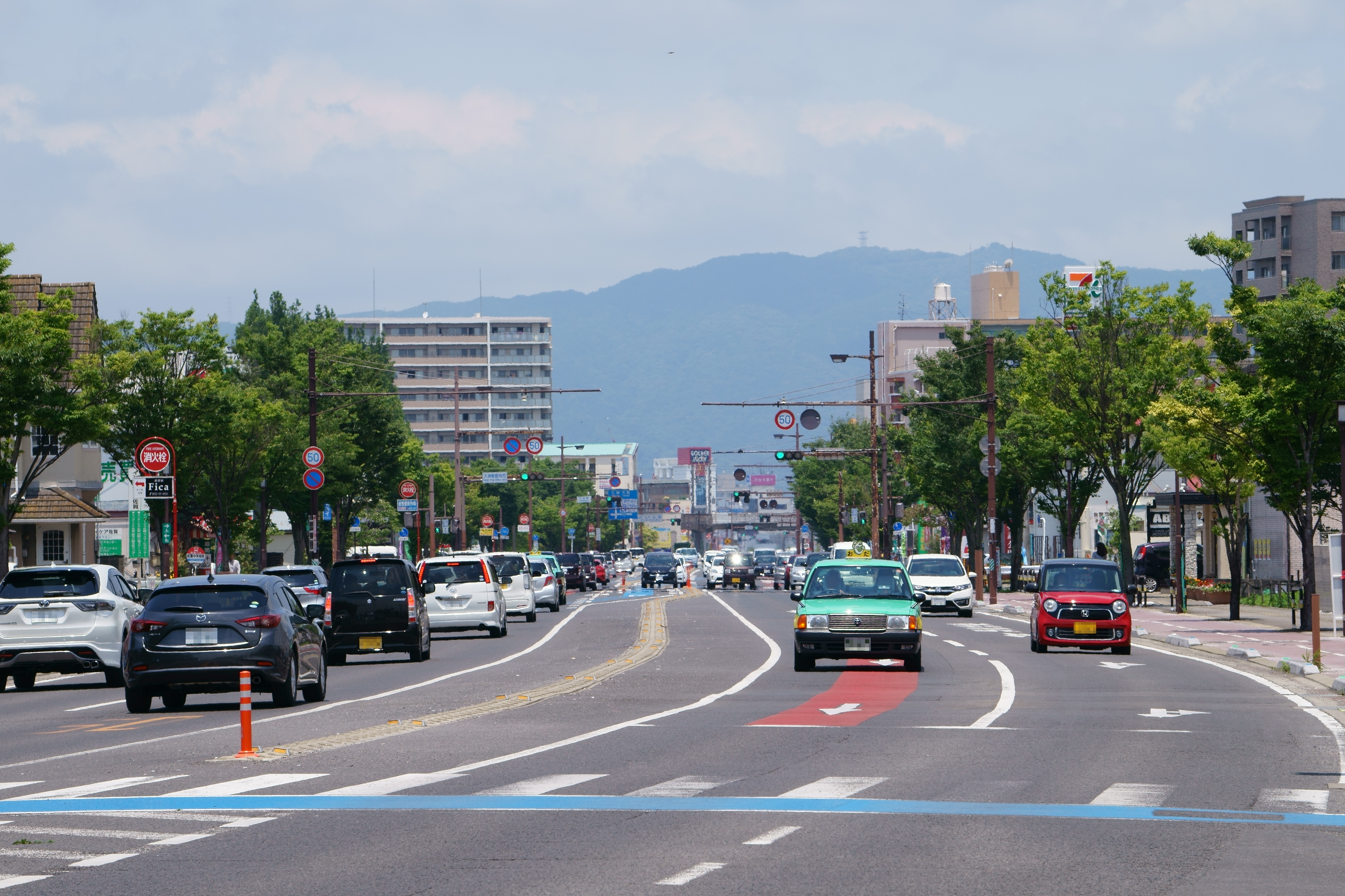 Boseki-dori Street from Tafuse 1-chome intersection in Saga city.